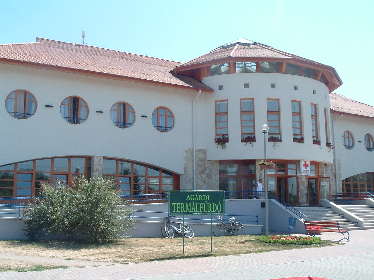 The Thermal Bath in Agárd